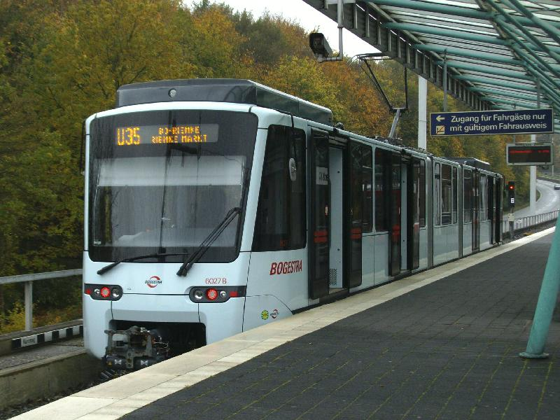 Stadler Tango (variant BoGeStra) in use in Bochum, Haltestelle Hustadt.